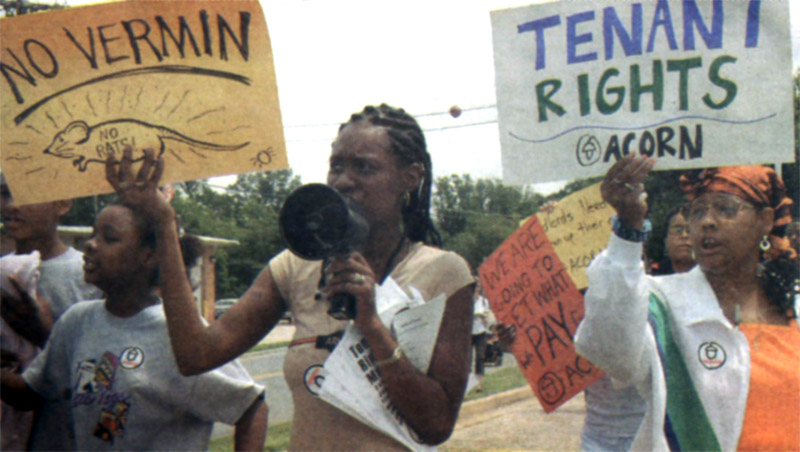 flickr ACORN protest